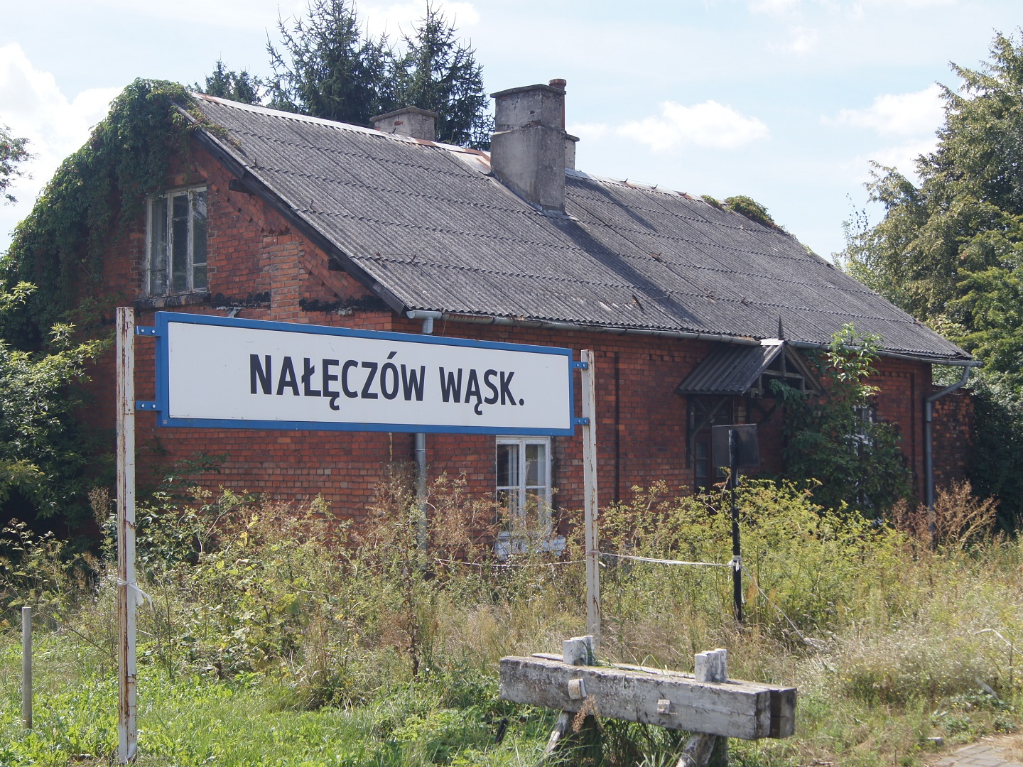 Nałęczów Wąskotorowy, narrow-gauge railway station, 2018